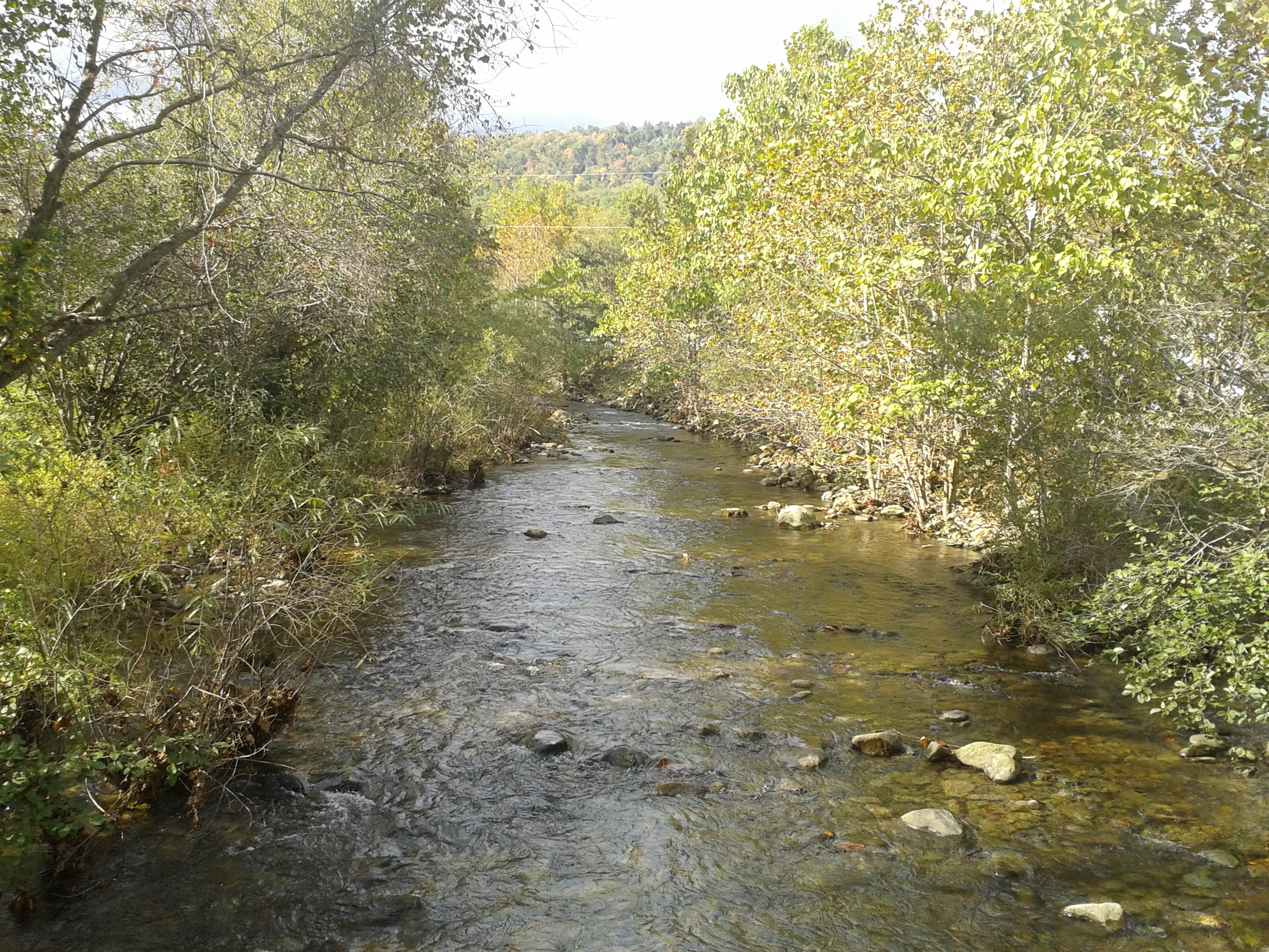 Rose River on the grounds of Graves Mountain Lodge, Syria, Virginia